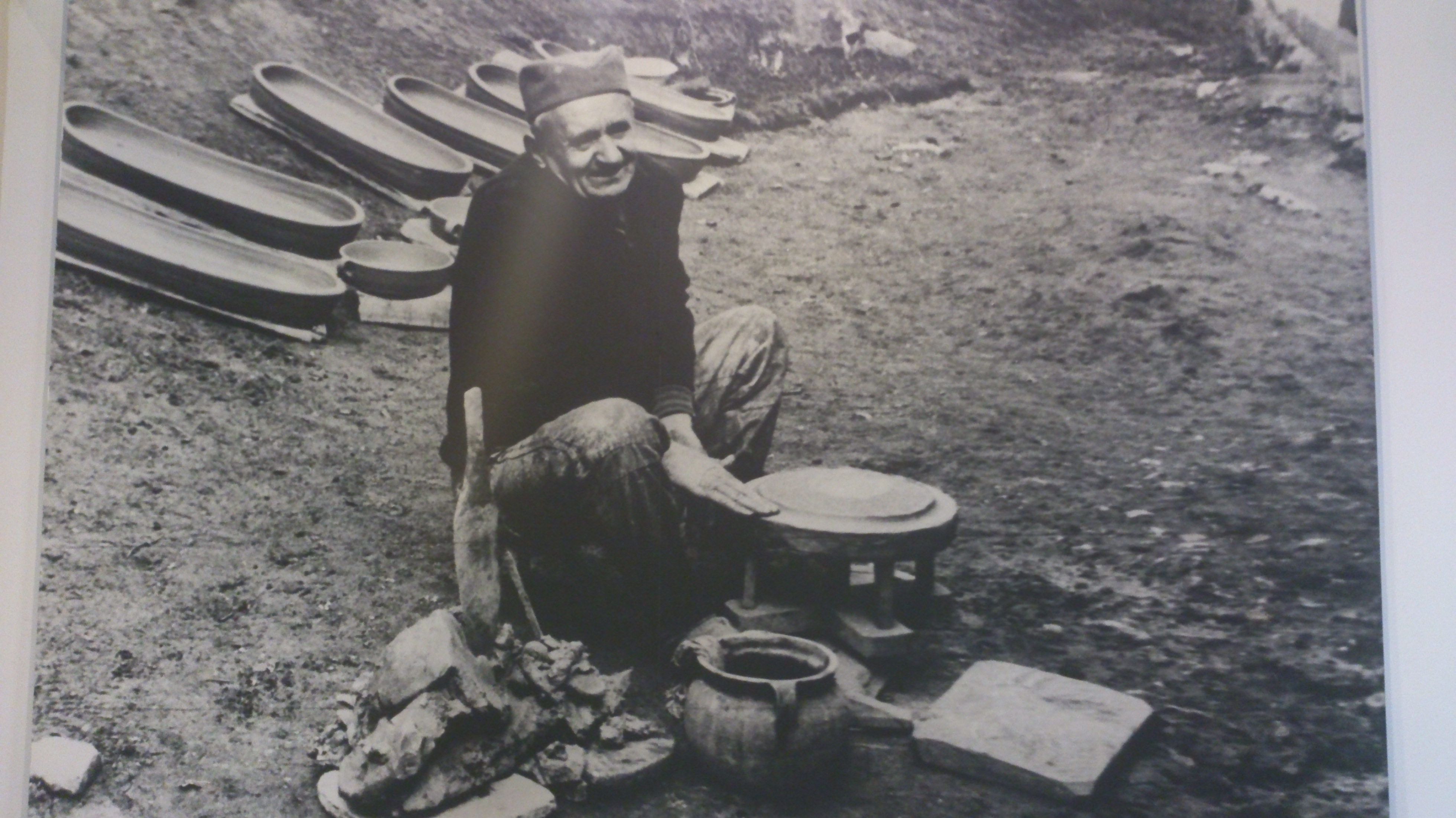 Etnografski muzej Beograd Srpski (latinica): Etnografski muzej u Beogradu